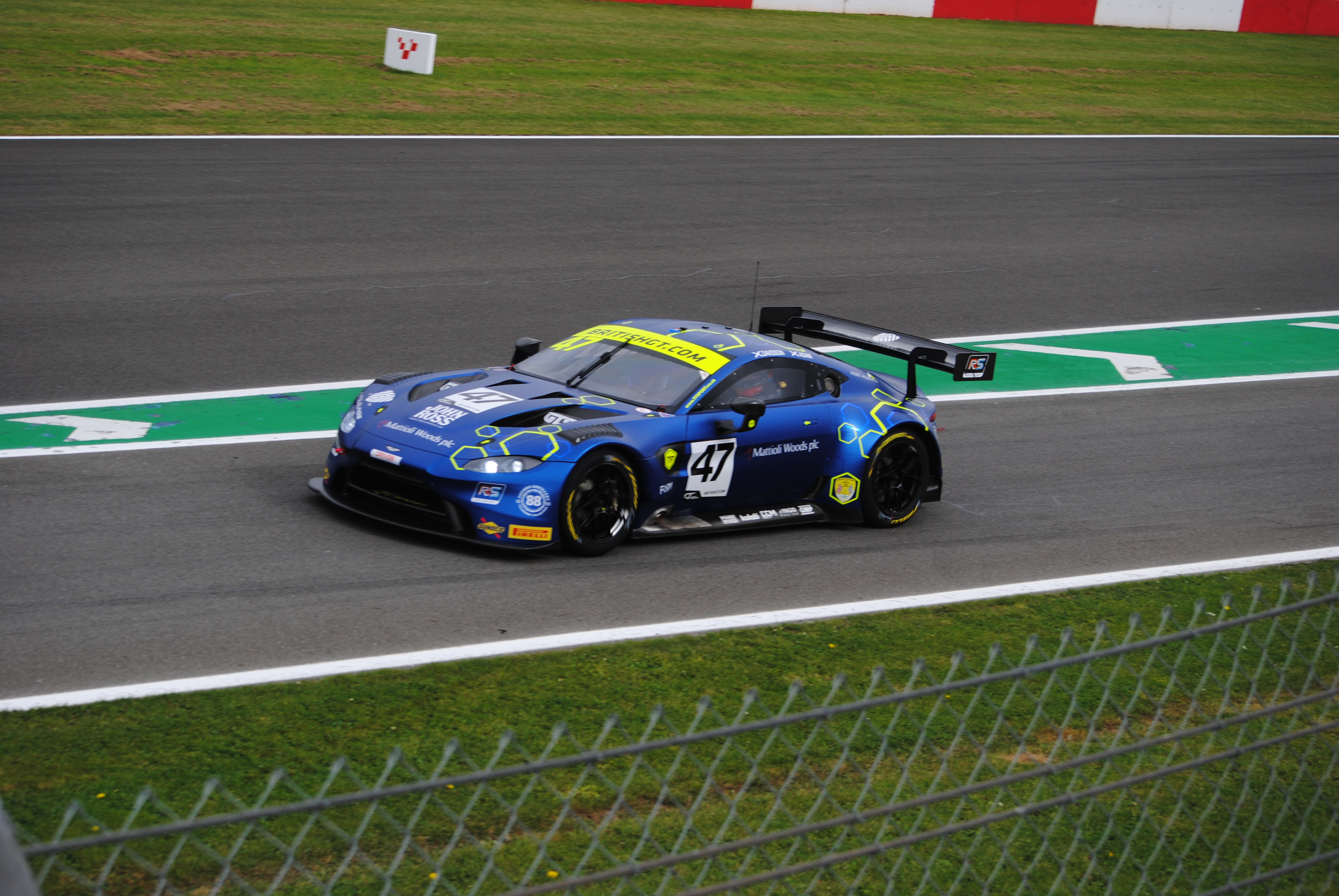 The 2019 GT3 champions, Jonathan Adam and Graham Davidson, won the title after a dispute about a Lamborghini's penalty putting it ahead of the Aston after contact, in the end, TF Sport took it by 3.5 points from Barwell Motorsport.